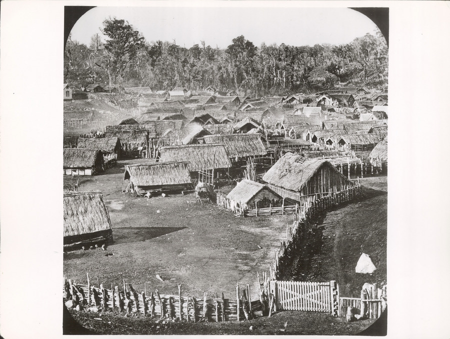 Publicity Caption: Parihaka Village, Taranaki, before 1886. It is believed to have housed over 2000 people, of which only one of every ten survived a measles epidemic at that time. This photo is from Archives New Zealand's National Publicity Studios collection. The National Publicity Studios was established in 1945, but its beginnings can be traced back to the establishment in 1924 of a Publicity Office - part of the Department of Internal Affairs. The emphasis of this Publicity Office was on films, photographs and booklets. The purpose of the National Publicity Studios was to provide advice to government departments and state agencies on the provision of photographic, art, and display services and in particular to assist in the production of publicity material aimed at conveying a favourable image of New Zealand. Archives Reference: AAQT 6539 W3537 Box 54/ A54871 Material from Archives New Zealand